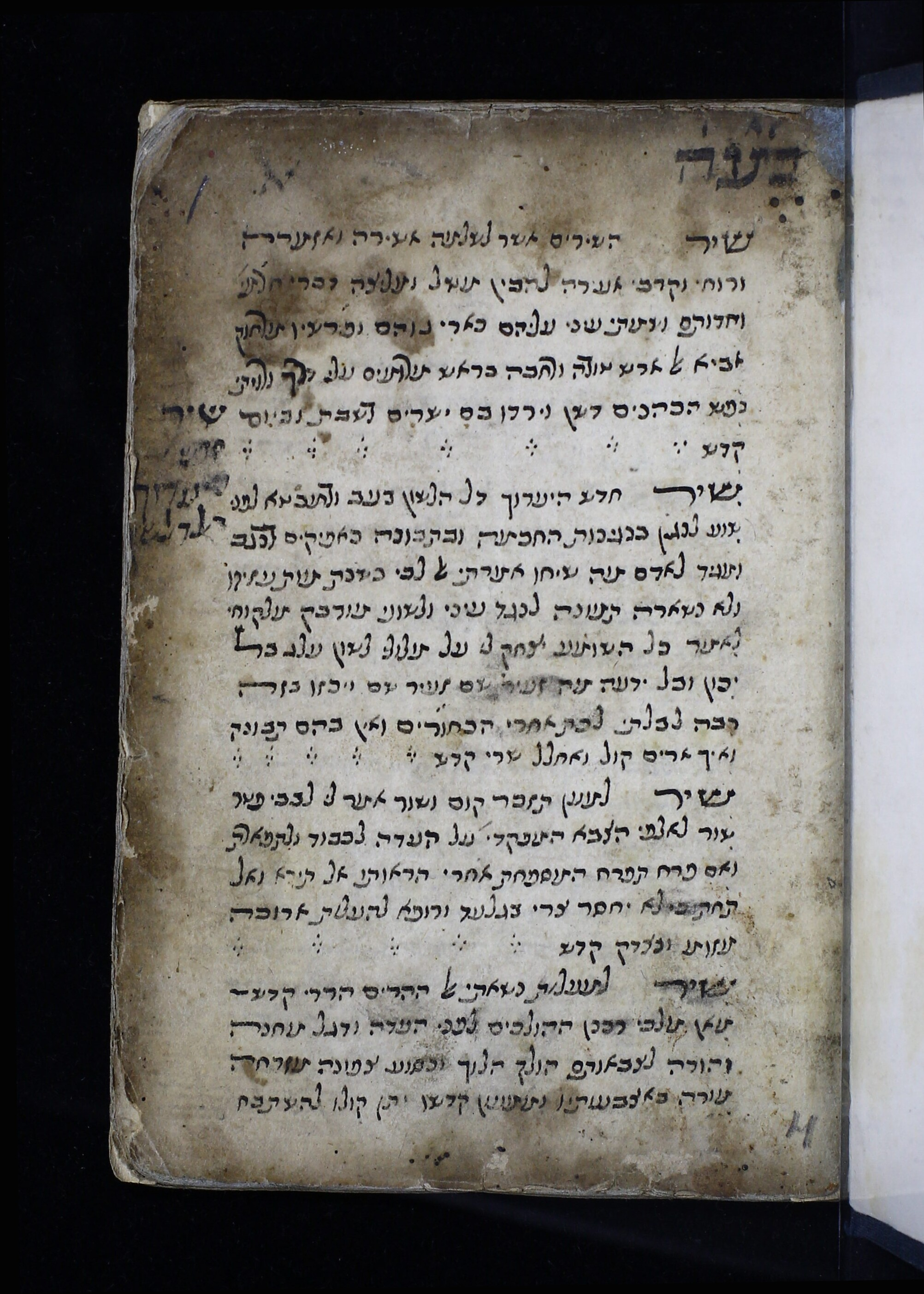 Benjamin of Tudela, Itinerarium (Hebrew) MS Bodleian Opp. Add. 8vo 58 f. 1r